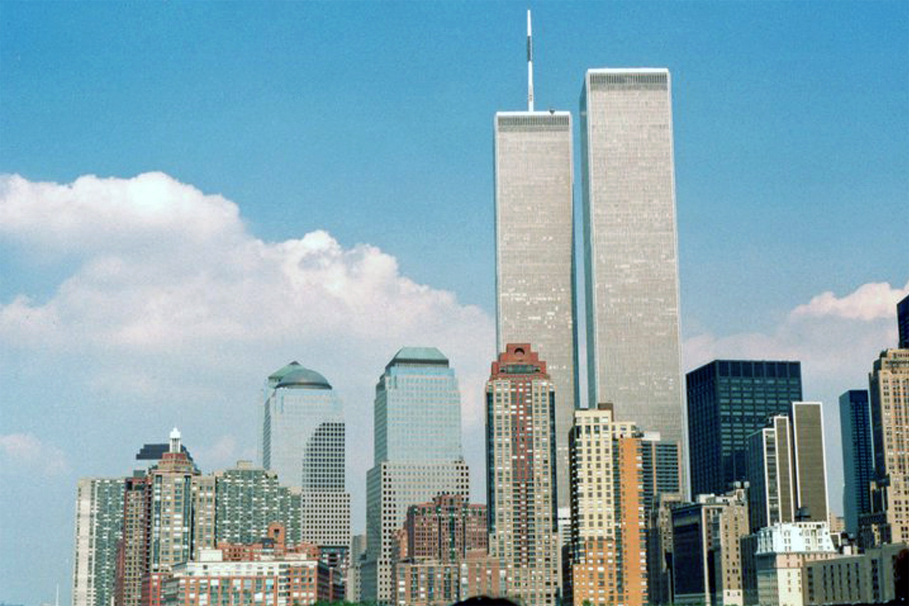 Twin Towers and World Trade Center NYC (scanned from print photos)